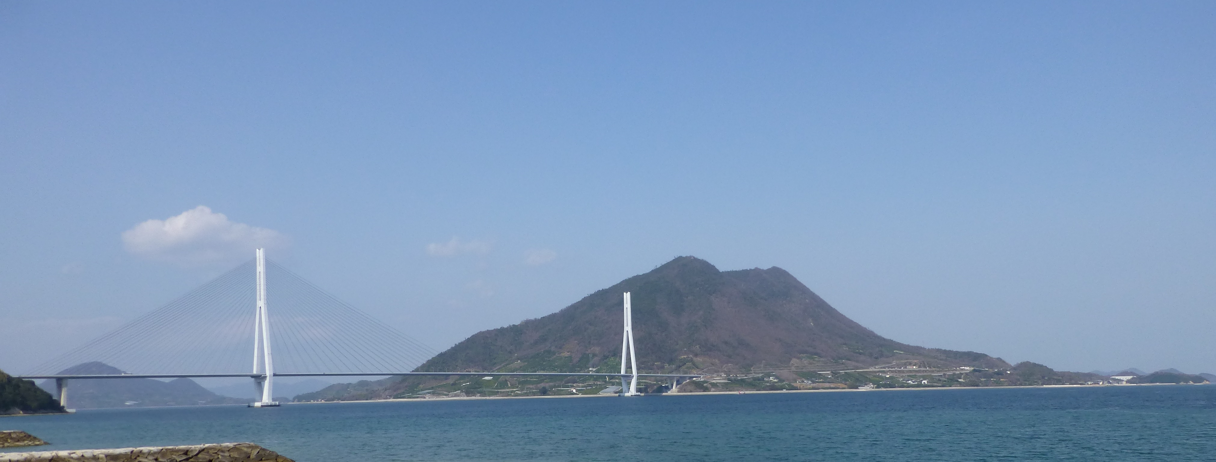 Ikuti Island in Hiroshima Prefecture, Japan.